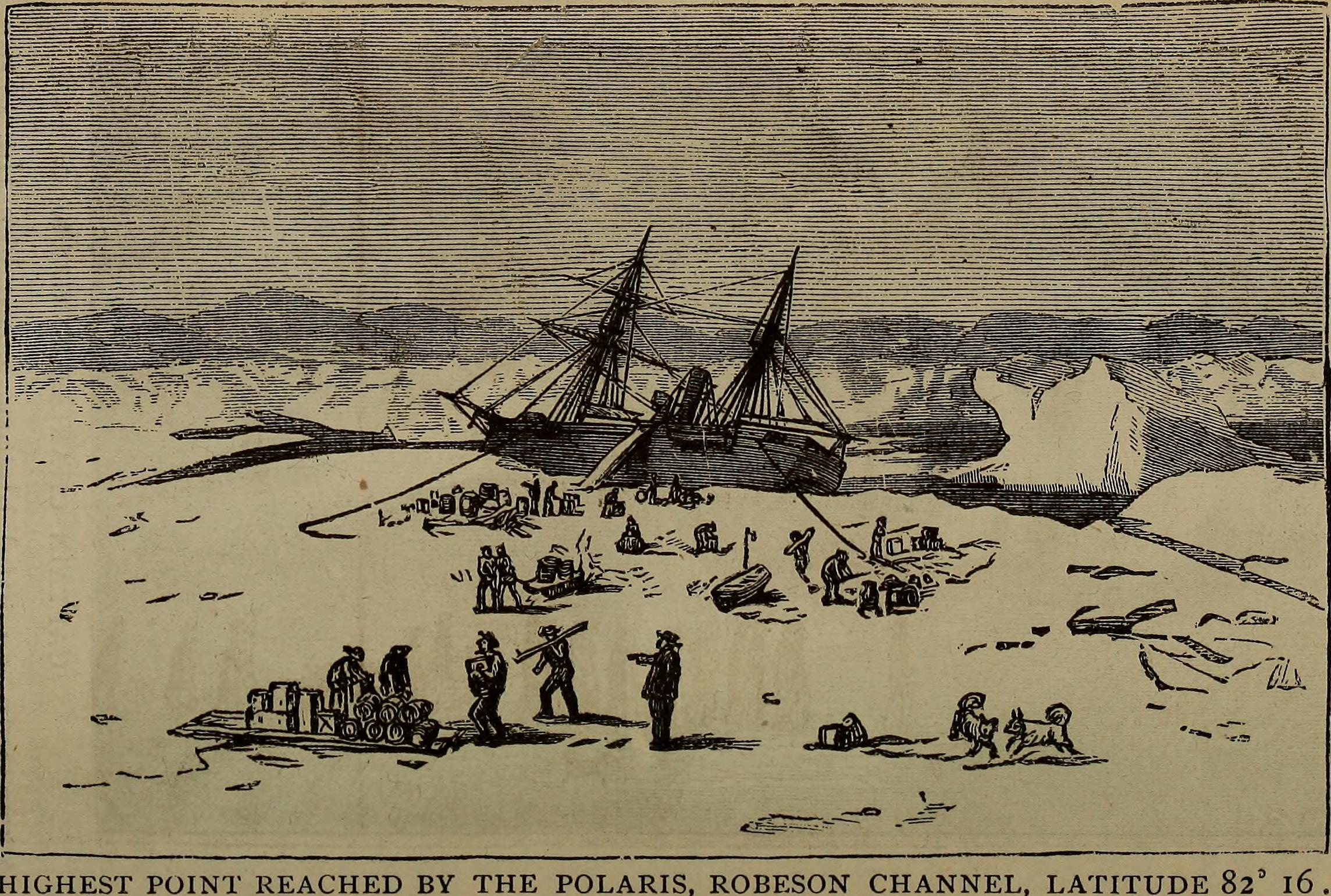 Title: The Science record; a compendium of scientific progress and discovery Year: 1872 (1870s) Authors: Beach, Alfred Ely, 1826-1896 Subjects: Technology Industrial arts Publisher: New York, Munn Text Appearing Before Image: CAPTAIN CHARLES F. HALL. A strange, eventful history, more like the fiction ofthe romancer than the recital of plain, unvarnished fact, isthe narrative of the last American arctic expedition underthe command of the lamented Hall. The steamer Polaris, it will be remembered, was fitted 524 SCIENCE RECORD. out for arctic service in the New-York Navy-Yard, duringthe summer of 1871, and under the immediate supervisionof her commander, Captain Charles F. Hall. Leaving theport, she touched at St. Johns, Newfoundland, and in the Text Appearing After Image: early part of August met the United States steamer Con-gress at Disco, Greenland, from which vessel she receivedher final supplies. On the 24th of August, 1871, after pur-chasing Esquimaux dogs, skins, and other necessaries, GEOGRAPHY. 525 Captain Hall wrote his adieu to civilization from Tessin-sack, Greenland, and sailed for the North Pole. The ship, according to the statement of the survivors,proceeded to the north through Smiths Sound, which, is